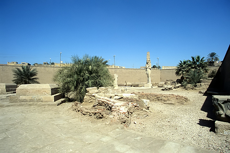 Open Air Museum of Akhmim, Sohag governorate, Egypt